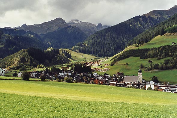 Disentis in the Grisons in Switzerland